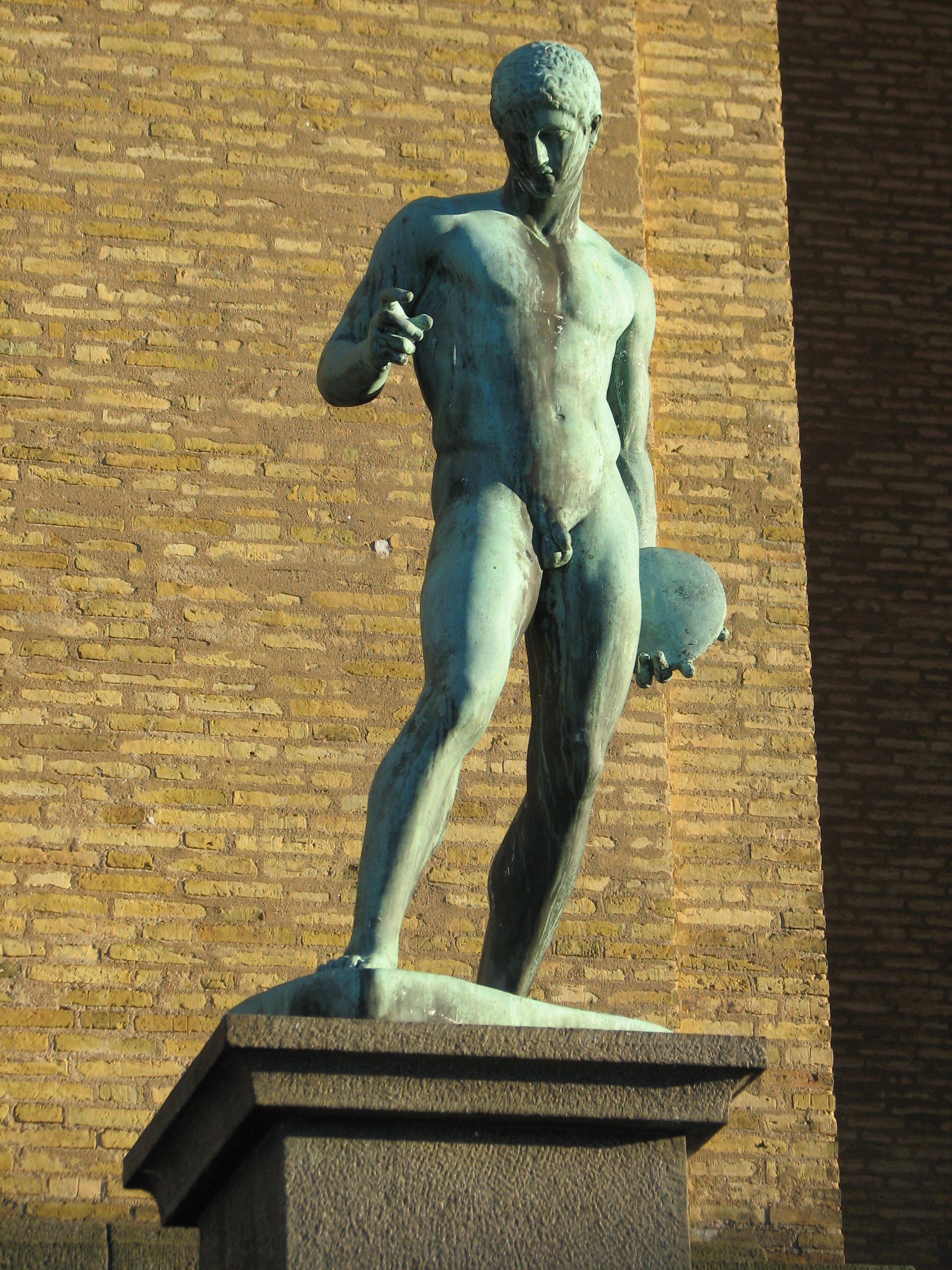 The bronze sculpture Diskuskastare (discus thrower), a copy of an old Alkamenes sculpture, placed at Göteborgs Konstmuseum on Götaplatsen in Göteborg, Sweden.